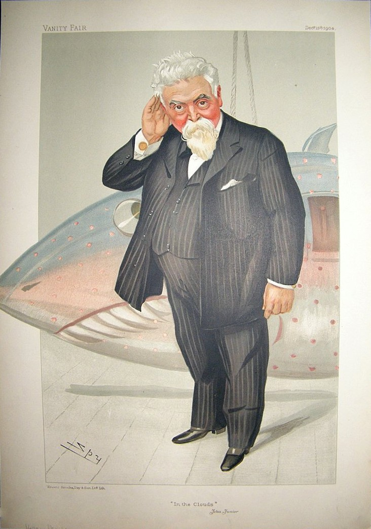 Caricature of Sir Hiram Stevens Maxim (1840-1916). Caption read "In the clouds".